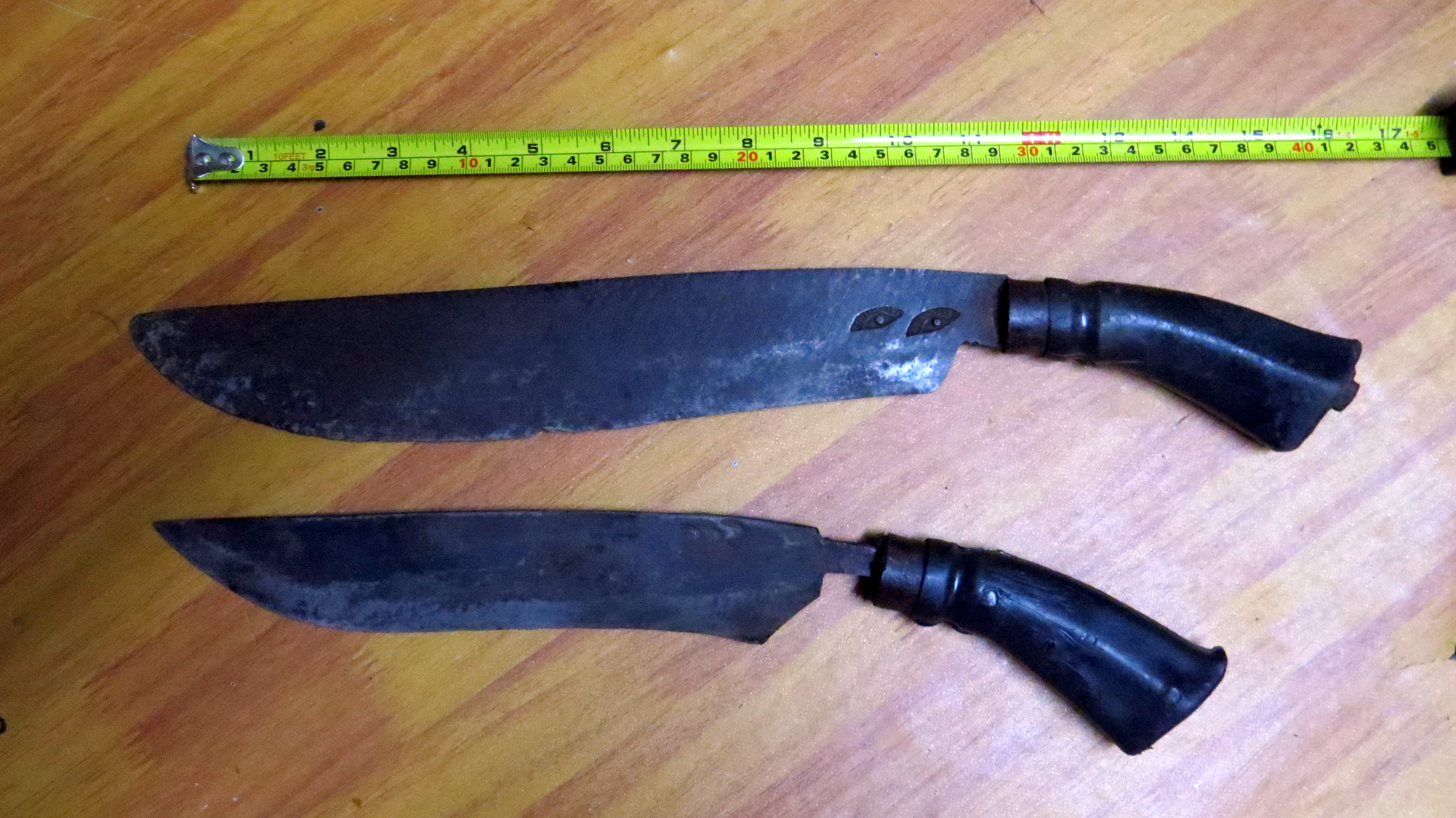 Parang Golok